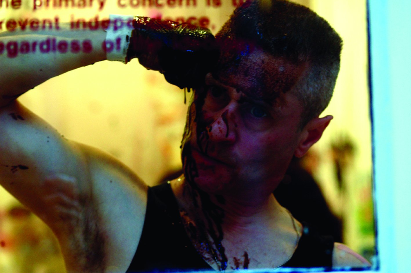 Performance Artwork